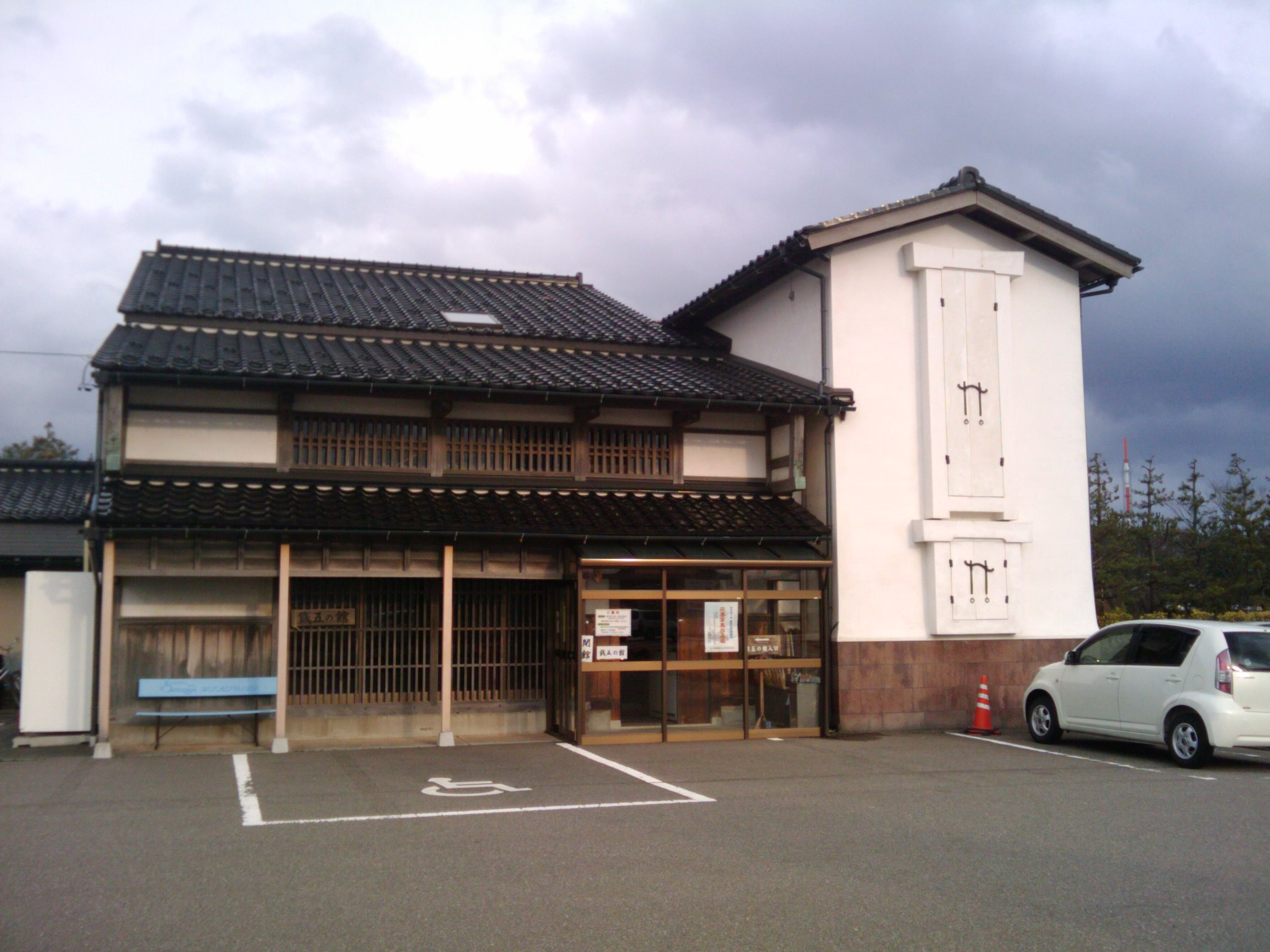 "Zenigo-no-yakata" in Zeniya Gohei Memorial Museum (Kanazawa, Ishikawa, Japan)